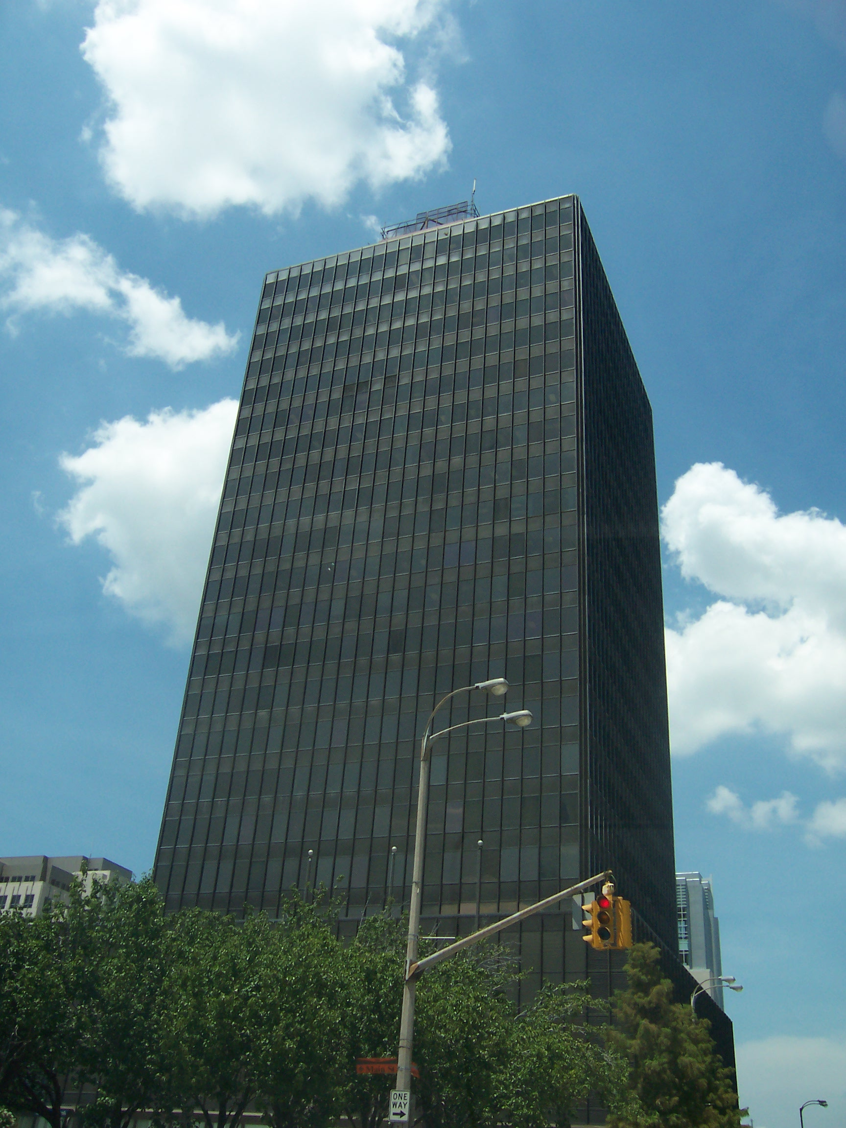 I made this myself.